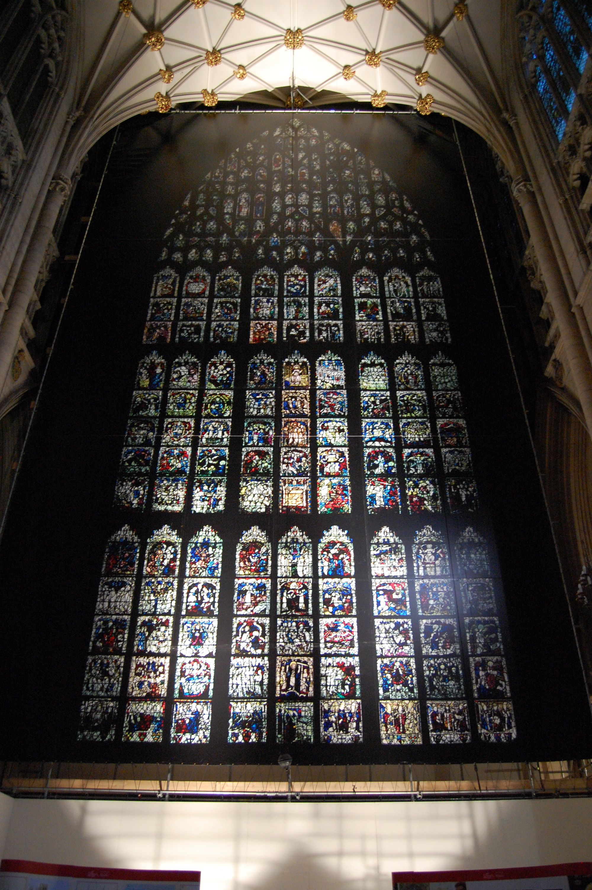 Digital replica created to obscure conservation work taking place at York Minster, York, UK. December 2008.